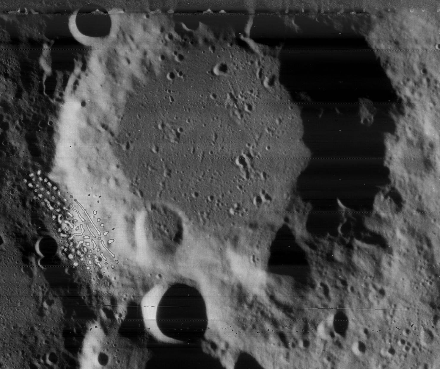 Most of Manzinus, near the south pole of the moon, with north at the top. Group of dots in lower left is blemish on original.